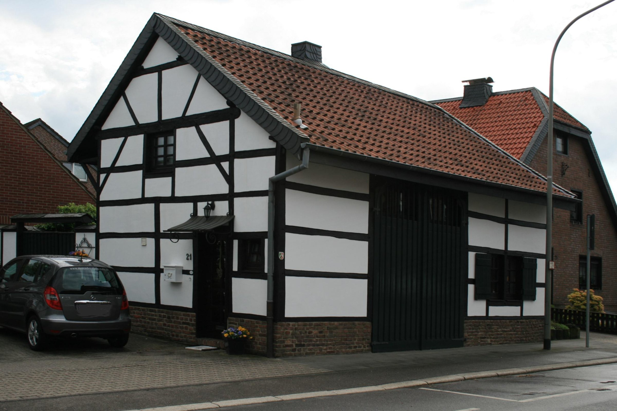 Cultural heritage monument No. T 002 in Mönchengladbach